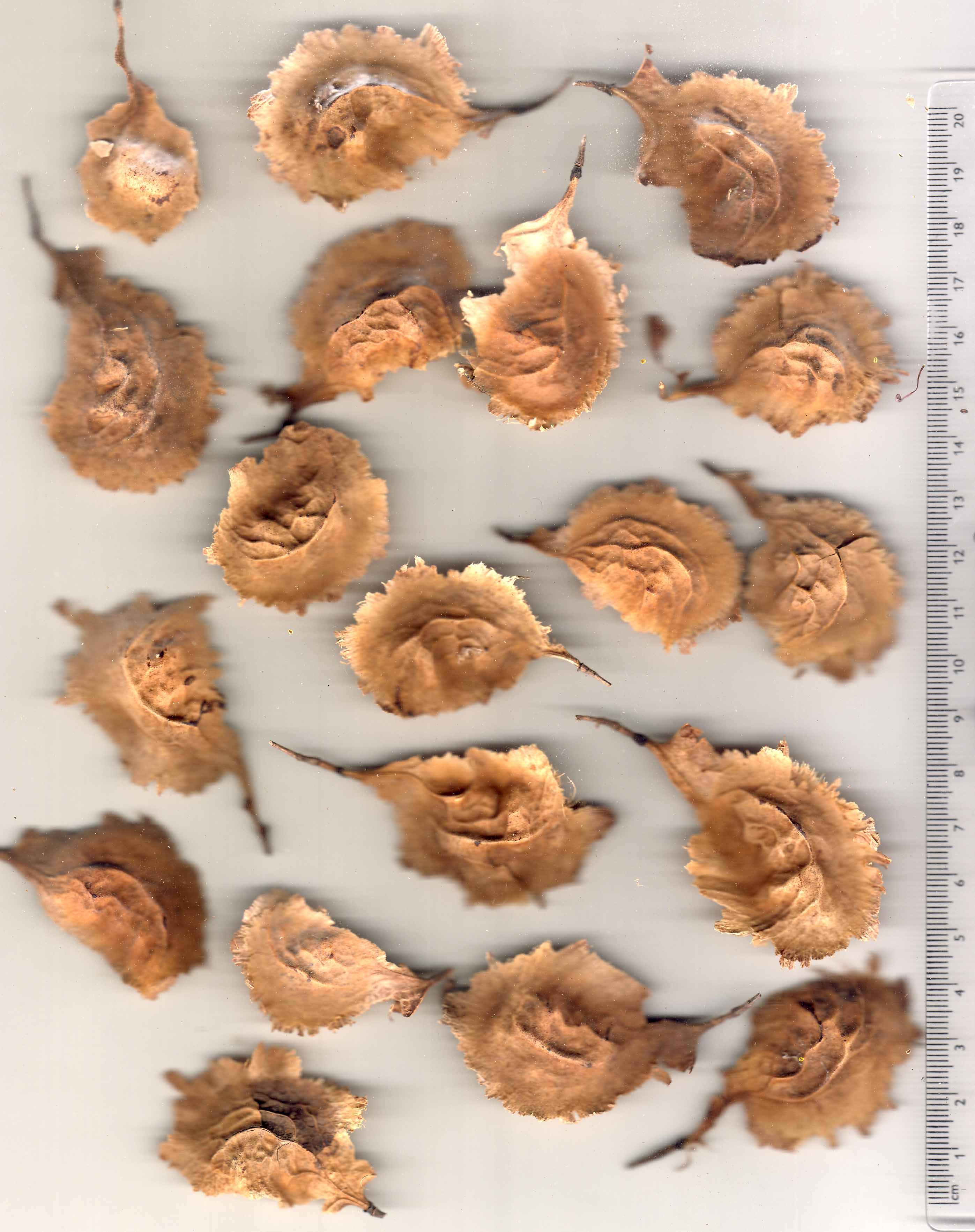 Pterocarpus macrocarpus seeds from Phitsanulok, Thailand